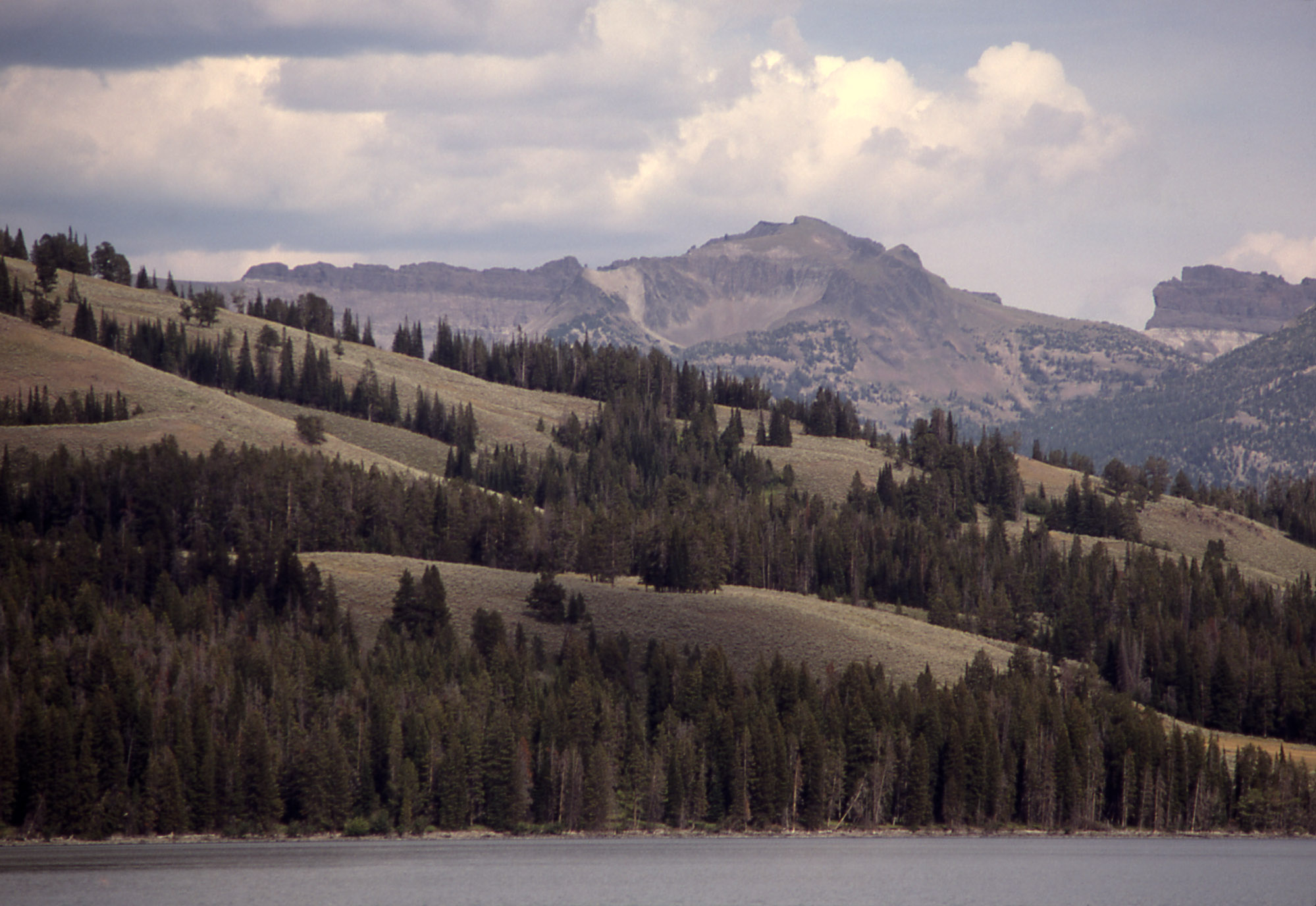 Mount Schurz from Yellowstone National Park, Wyoming, 1977